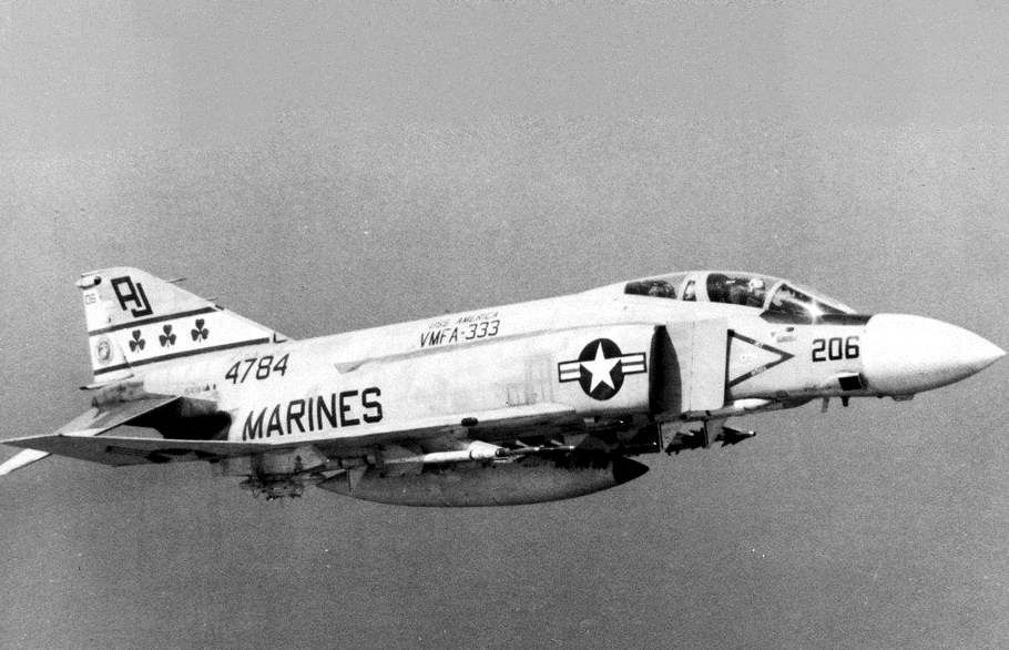 A U.S. Marine Corps McDonnell McDonnell F-4J-32-MC Phantom II (BuNo 154784) from Marine Fighter Attack Squadron VMFA-333 Shamrocks in flight. VMFA-333 was assigned to Carrier Air Wing 8 (CVW-8) aboard the aircraft carrier USS America (CVA-66) for a deployment to Vietnam from 5 June 1972 to 24 March 1973. This aircraft was shot down by a surface-to-air missile over North Vietnam on 11 September 1972, shortly after shooting down a MiG-21. Both crew, Capt. Andrew Scott Dudley and 1st Lt. James W. Brady, ejected and were picked up by SAR helicopters.